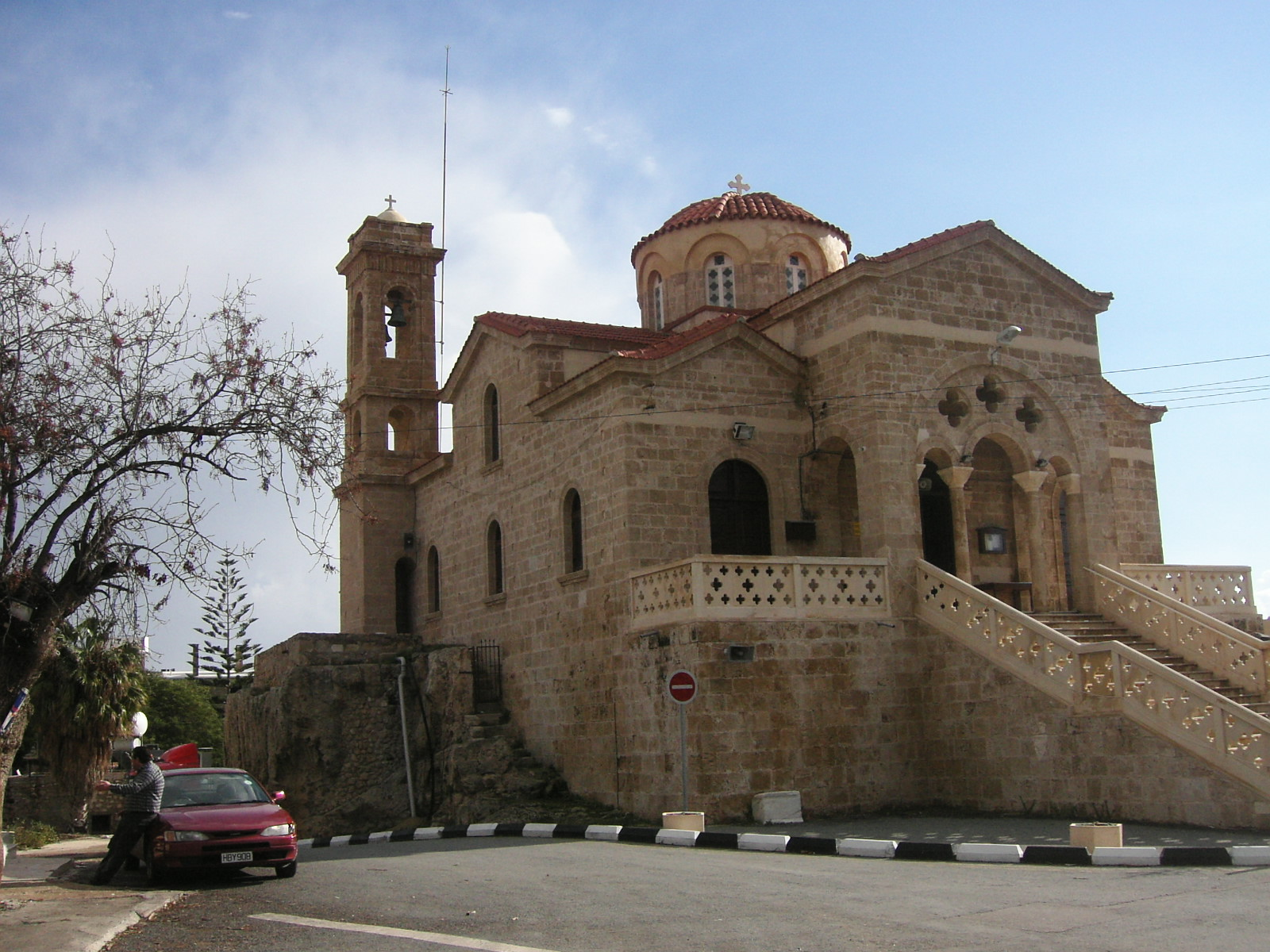 Kirche Theoskepsti